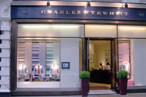 Charles Tyrwhitt shop at 92 Jermyn Street (later moved to 100 Jermyn Street)